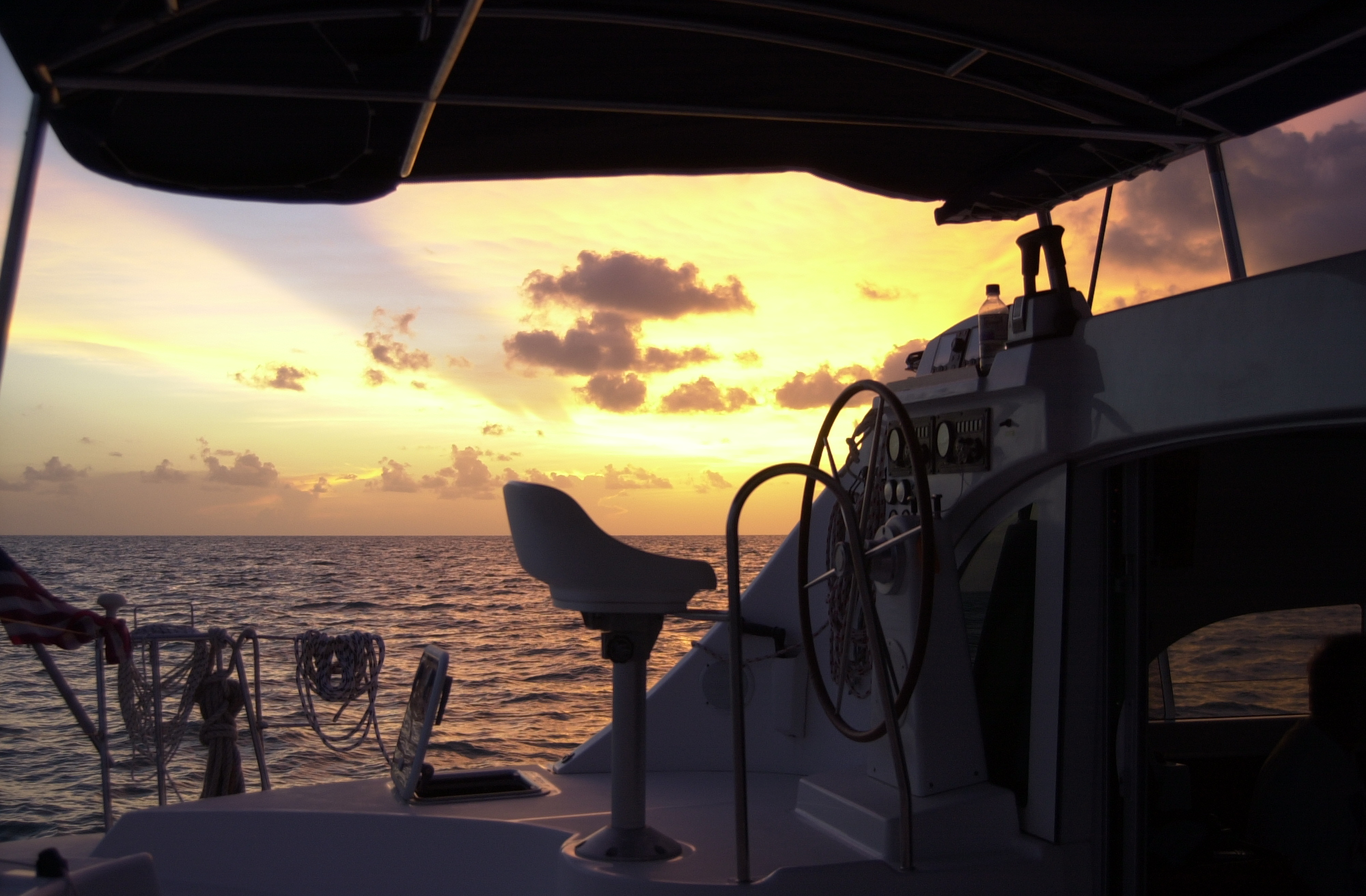 Lagoon 380 catamaran cockpit at sunset.